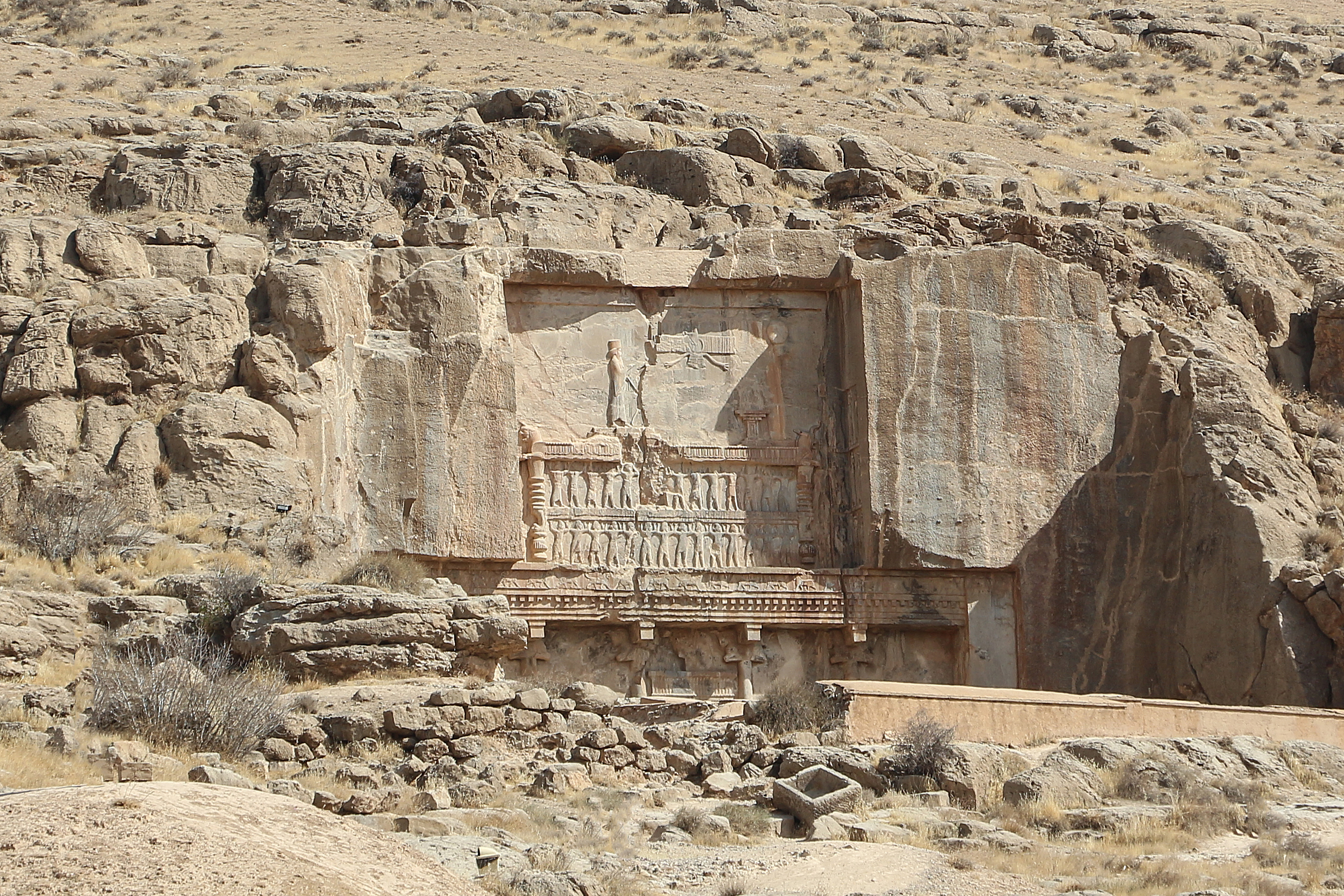 Tomb of Artaxerxes II, Persepolis, Iran